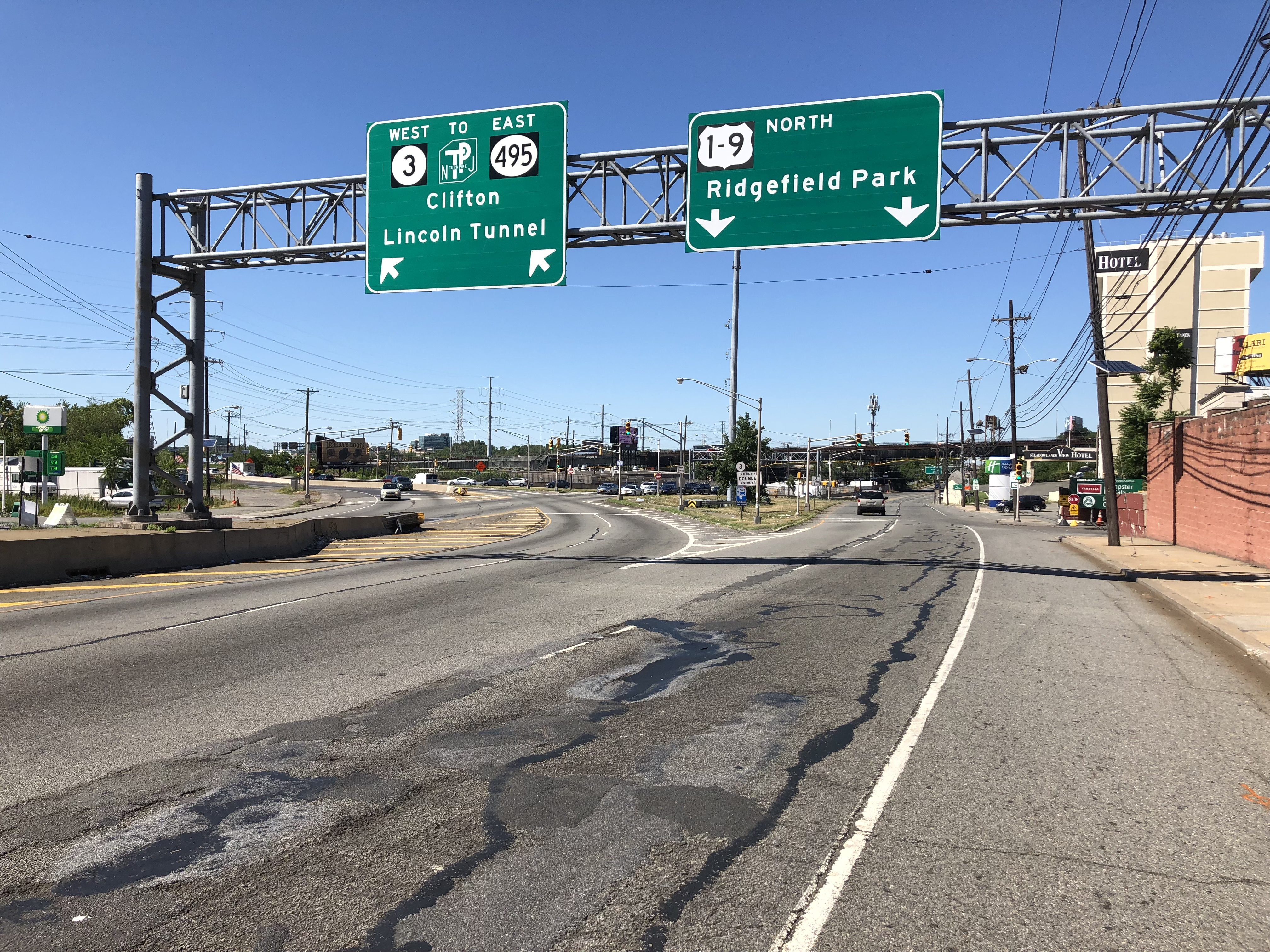 View north along U.S. Route 1 and U.S. Route 9 (Tonnele Avenue) at the junction with New Jersey State Route 3 (Secaucus Bypass) in North Bergen Township, Hudson County, New Jersey